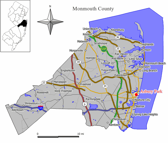 Source: Jim Irwin